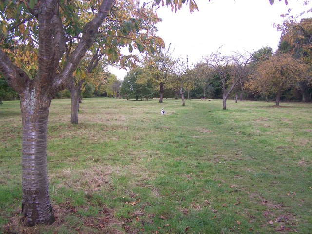 Capstone Farm Country Park Near to the Orchard Carpark.